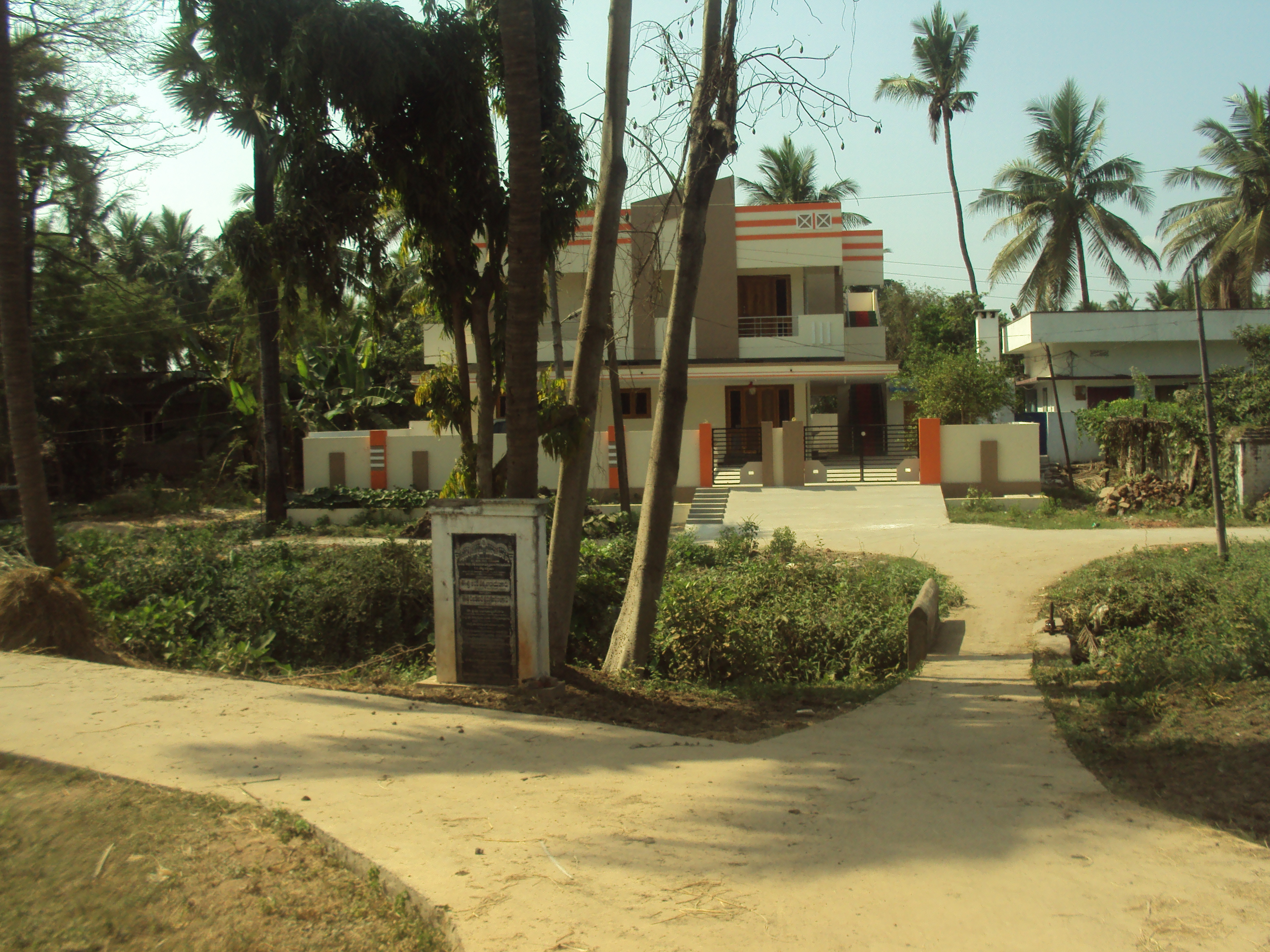 A scene in kanchumarru(attili mandal, west godavari district) villege